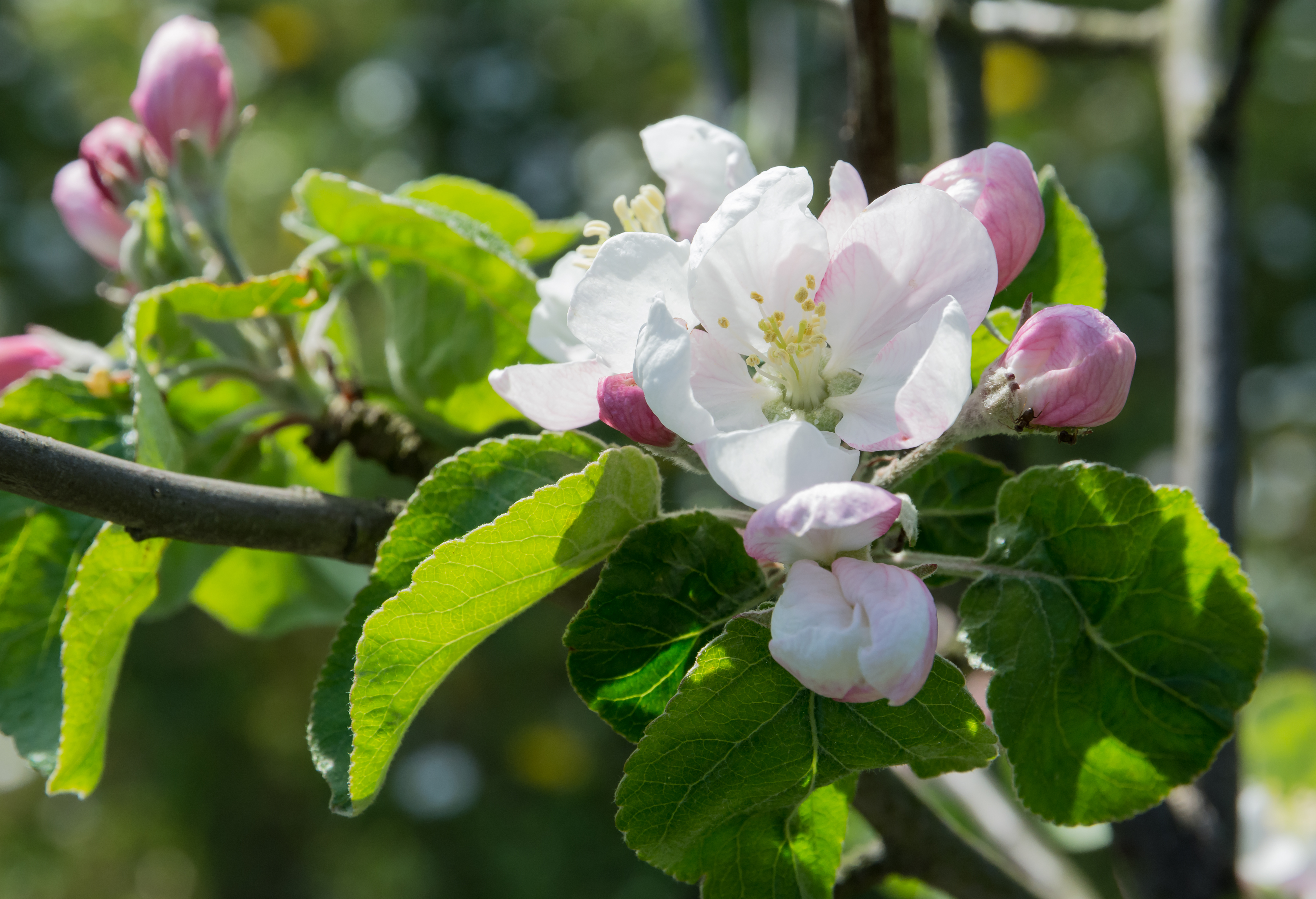 Apple tree, Malus domestica, blossoms